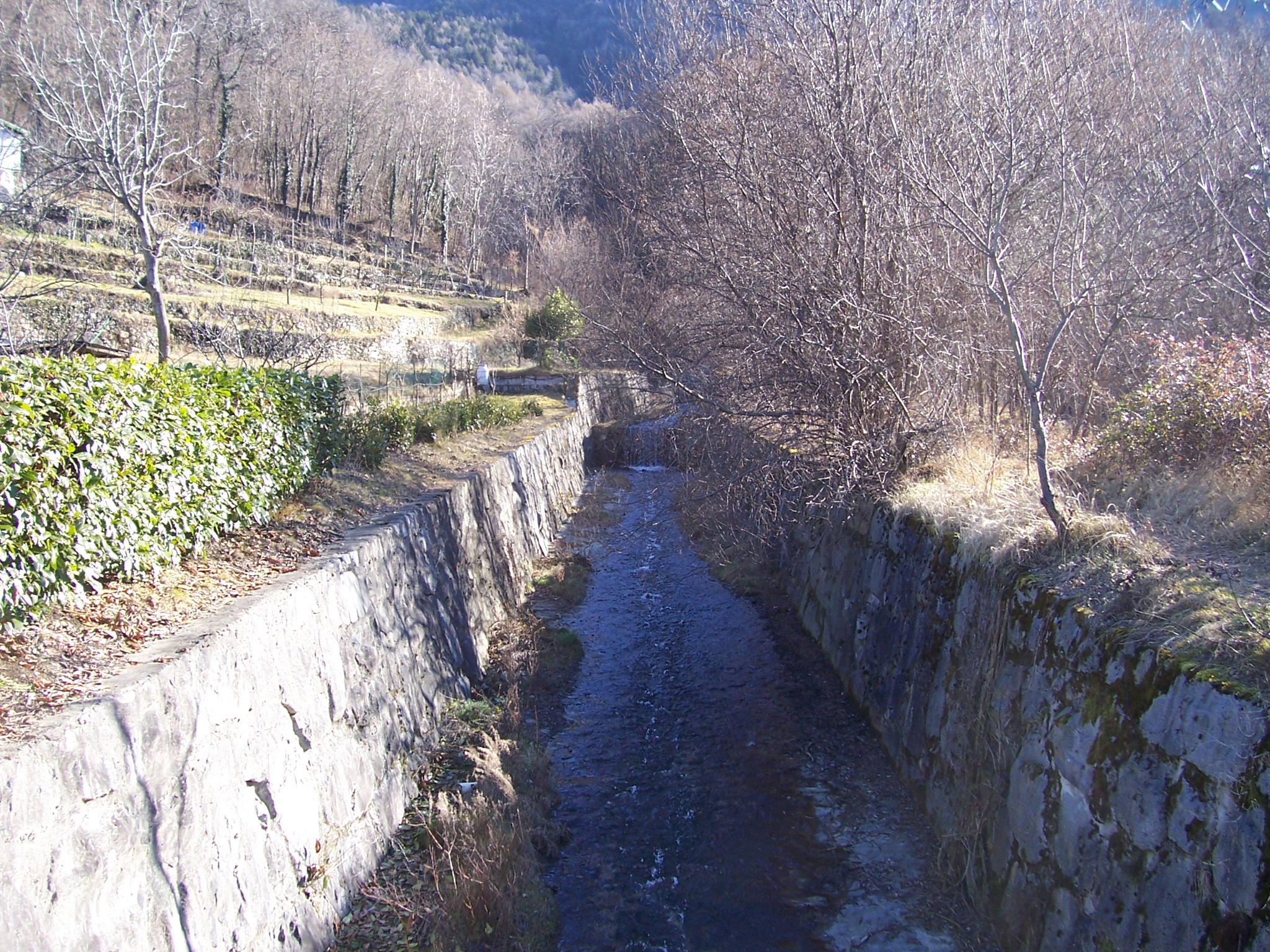 Figna river, Val Camonica